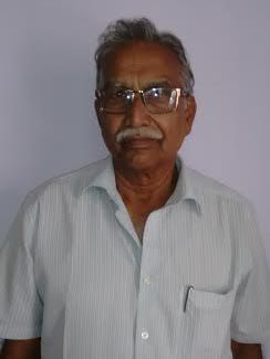 Kudavayil balasubramanian குடவாயில் பாலசுப்பிரமணியன்